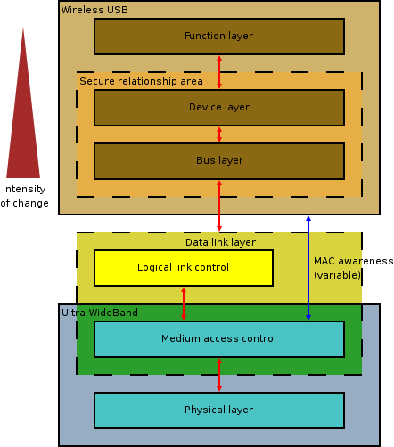 Diagram representing the stack structure of a Wireless USB system. It includes its relation to the underlying Ultra-WideBand layers and indicates implementation differences between W-USB and wired USB layers.